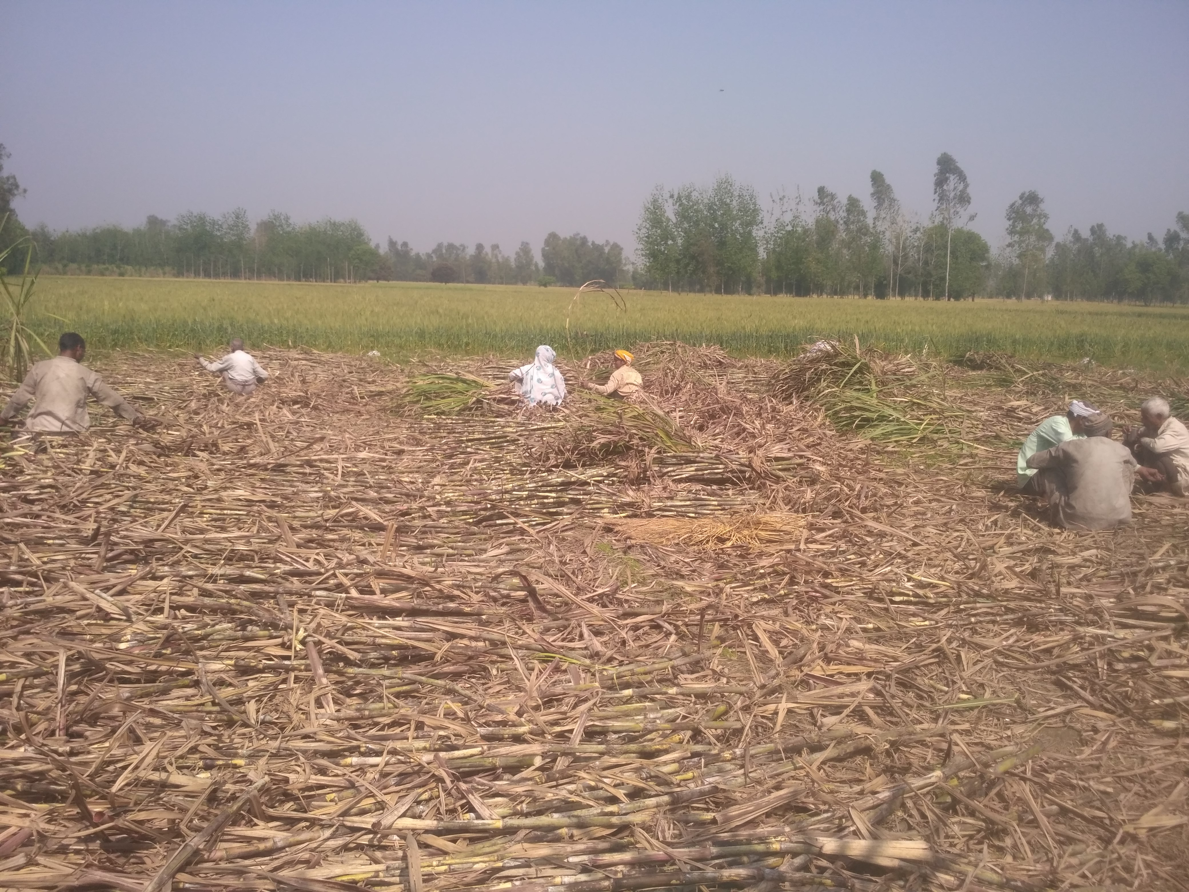 Farming and ready to deliver to mills